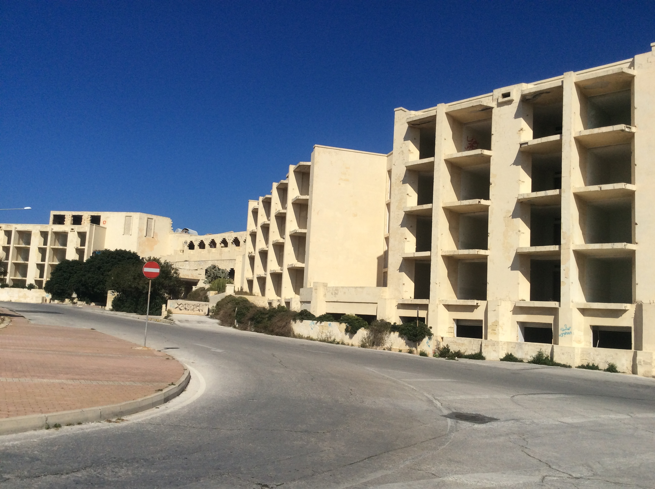 The abandoned Jerma Palace Hotel in Marsaskala, Malta